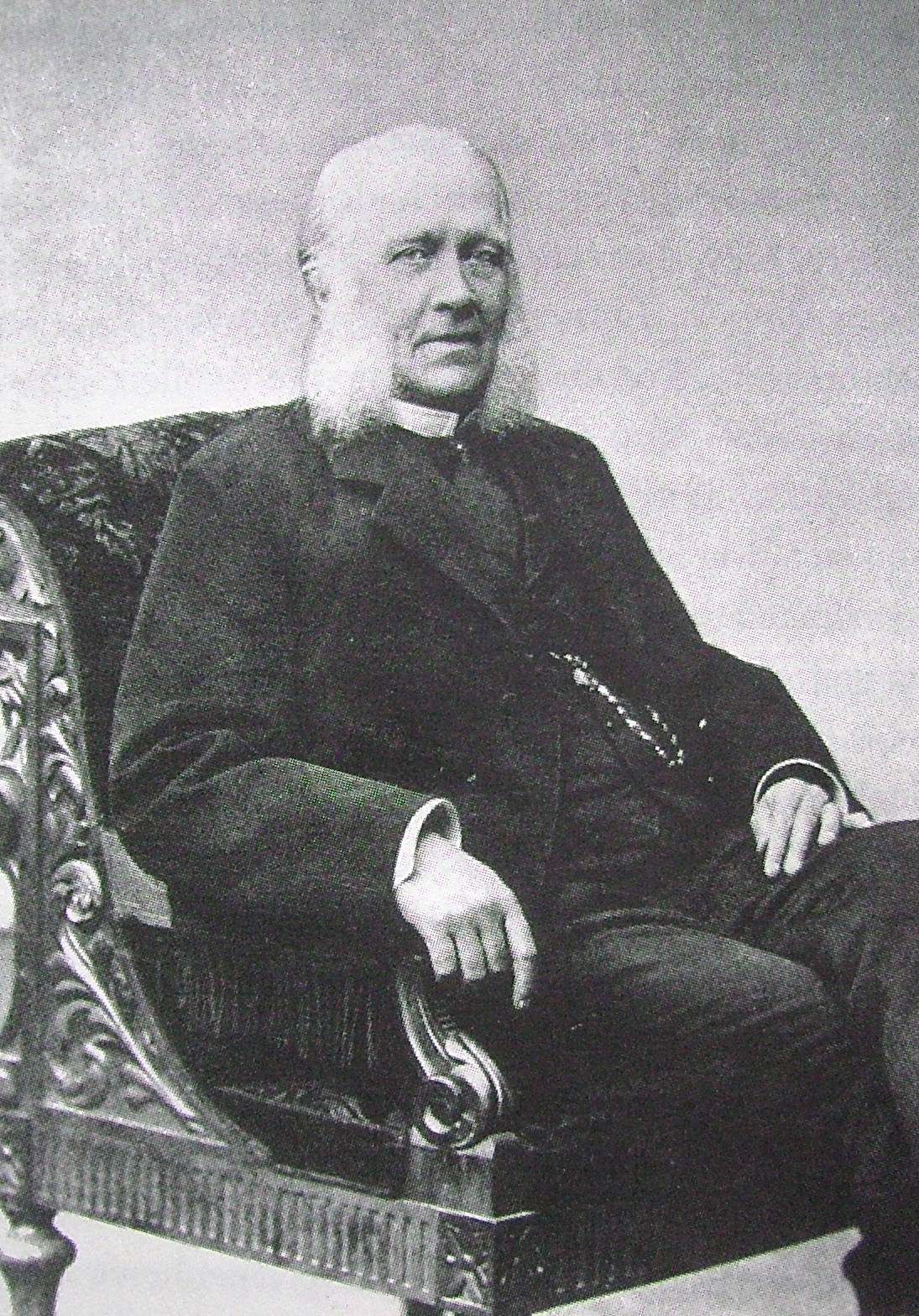 Picture of S.A. Hedlund, Swedish politician